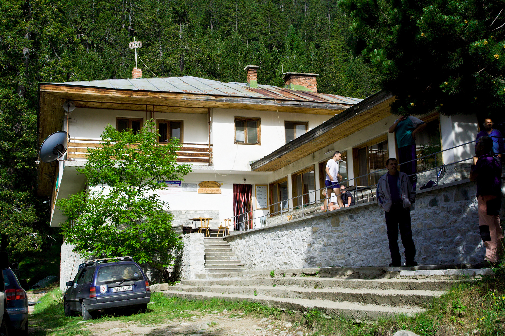 Yavorov hut, Pirin mountain, Bulgaria